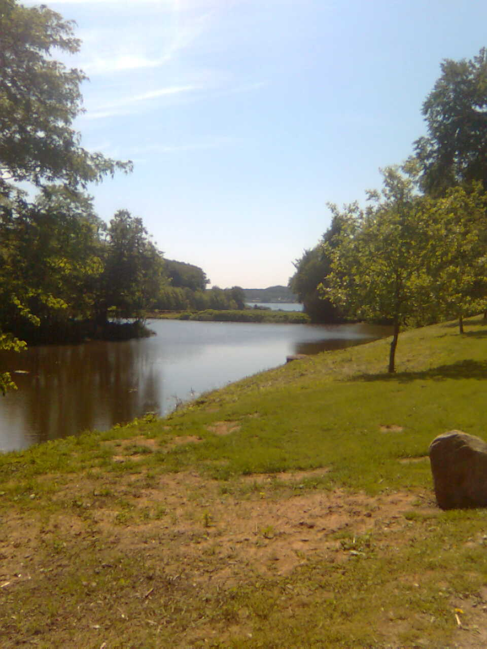 Tirsbæk in Vejle